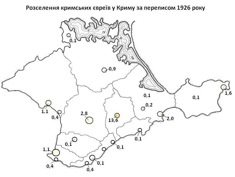 Percentage of krymchaks (crimean jews) in Crimea according to 1926 census